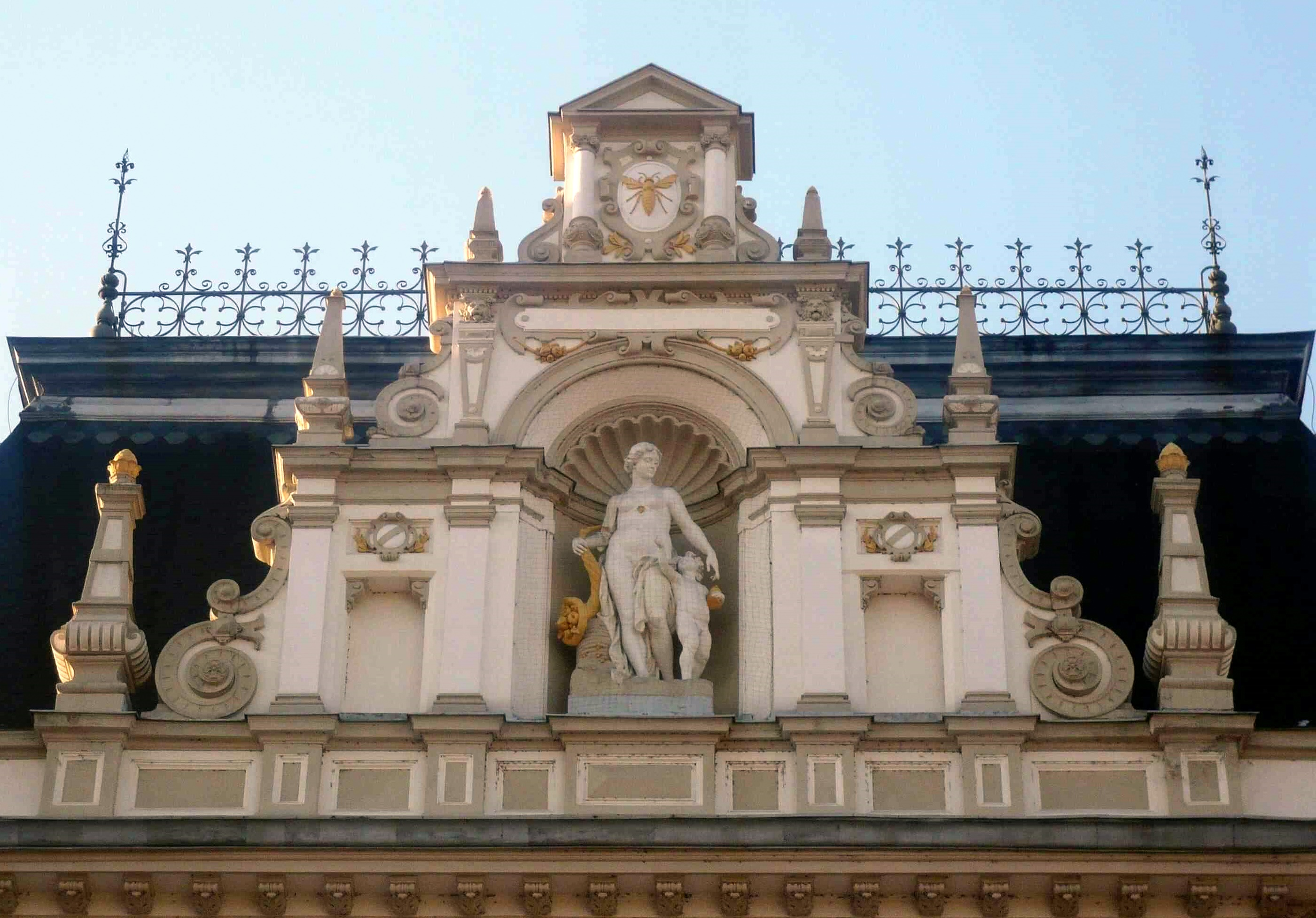 Statue of Eirene and Plutos on The Town Hall in Bielsko-Biała, Poland.